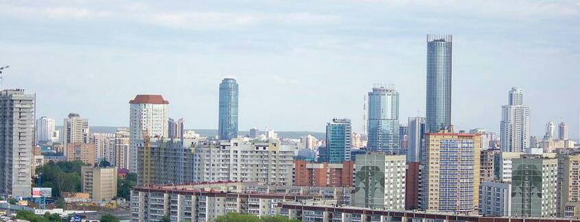 Yekaterinburg town